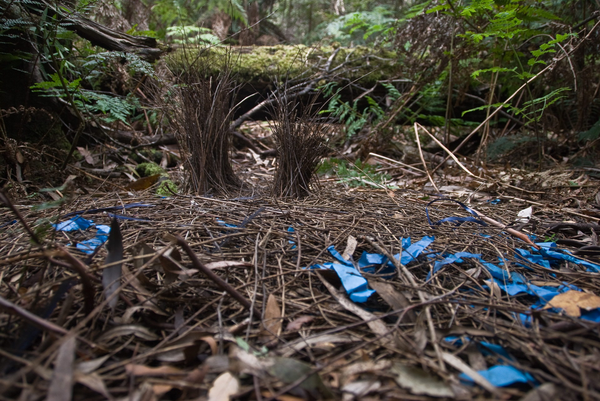 A bower bird's bower in Brown Mountain, Victoria, Australia.